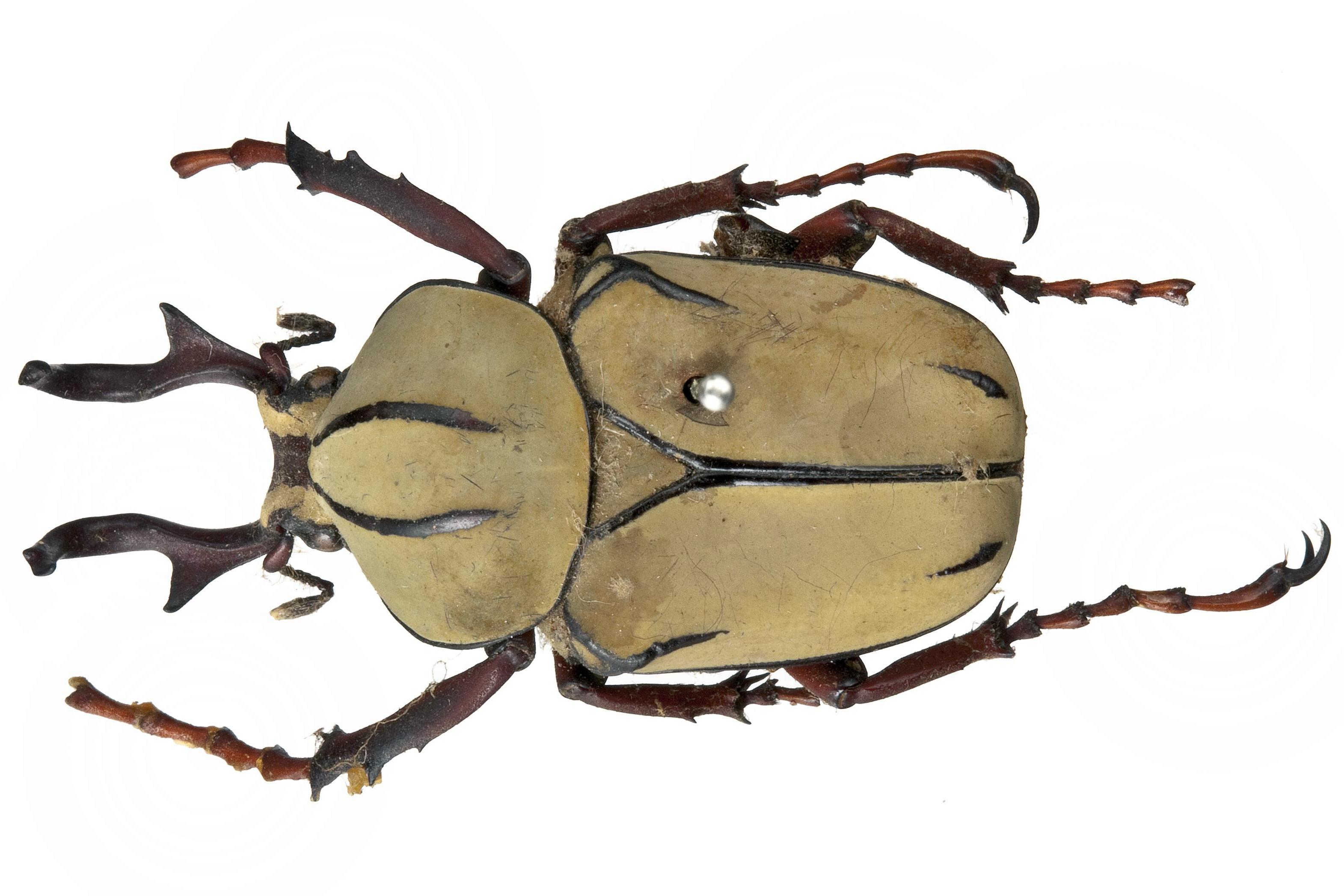 Dicronocephalus wallichii male